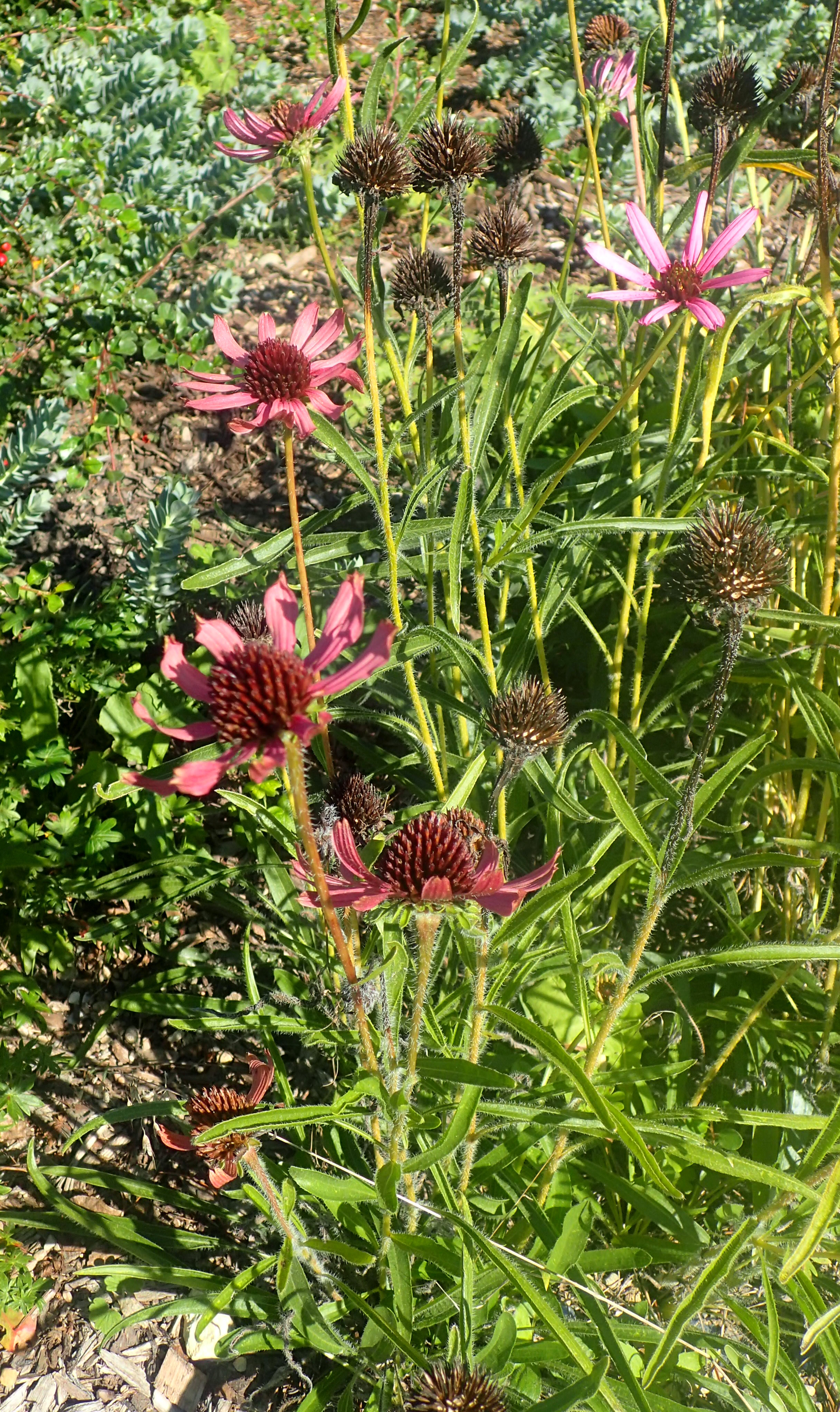 Echinacea tennesseensis at Garfield Park Conservatory